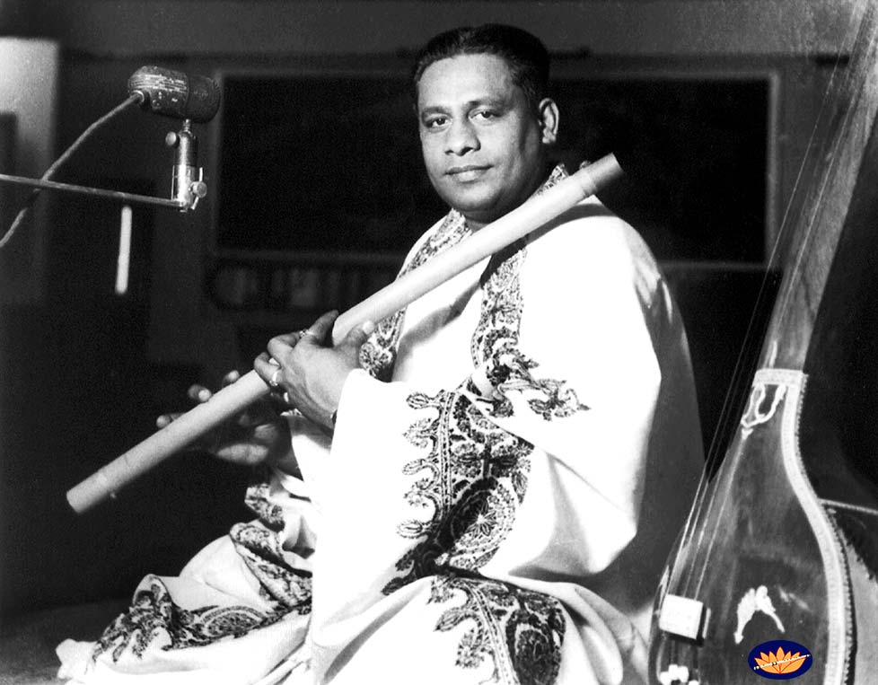 Playing his iconic long flute